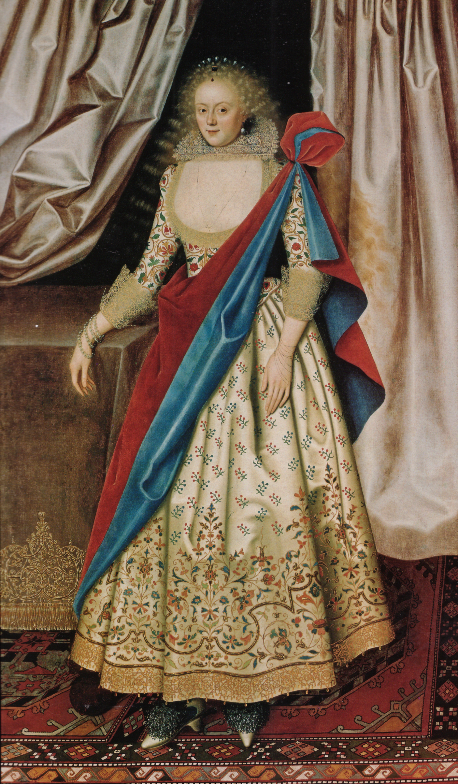 Portrait of Isabella Rich, Mrs Rogers, later Lady Smith